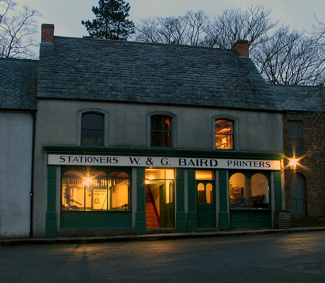 'W & G Baird', Ulster Folk Museum This printer/stationers store was originally located in New Row, Coleraine, County Londonderry but has been moved and rebuilt in the Ulster Folk Museum. for further information.